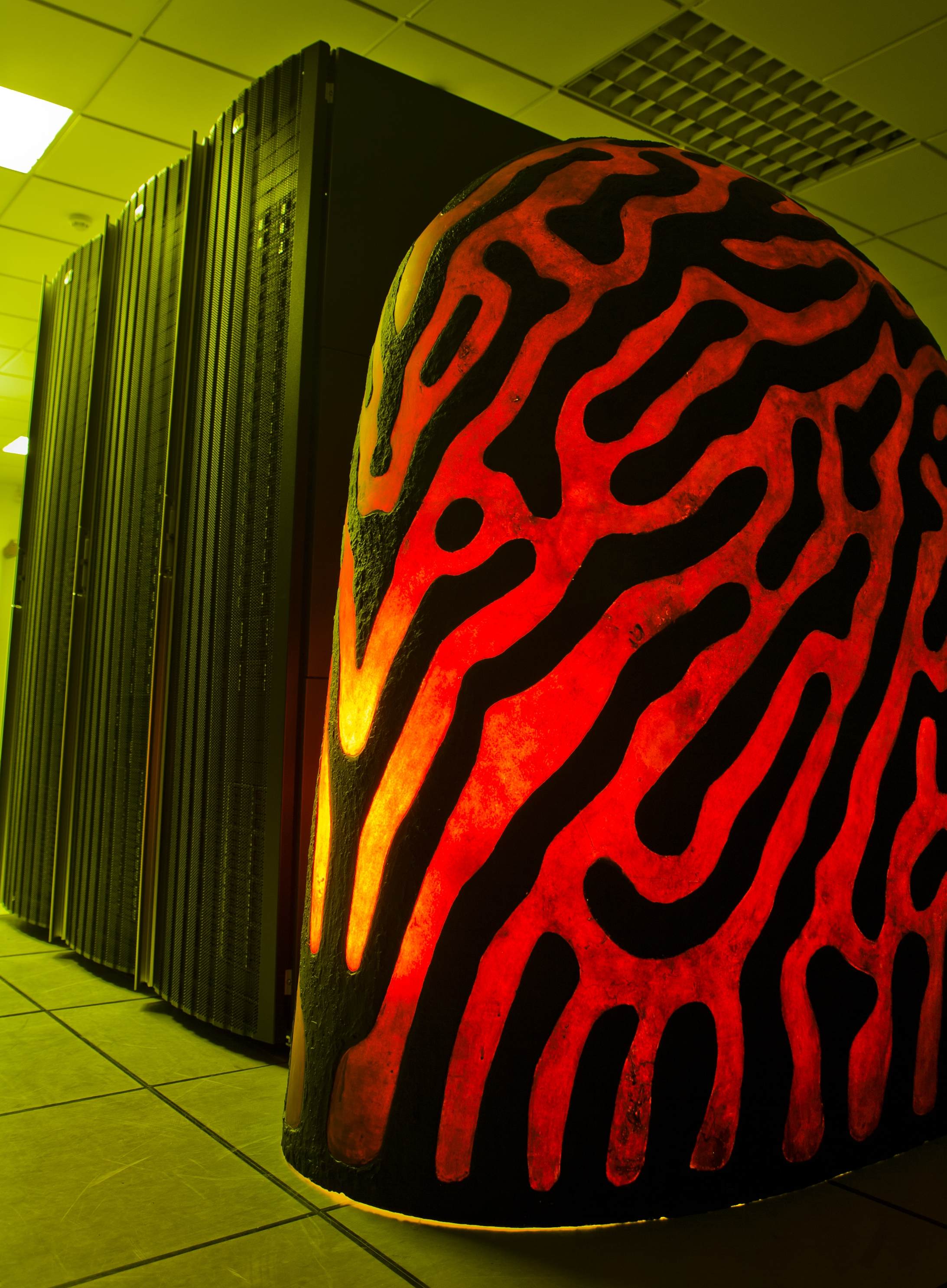 Iamus computer cluster.